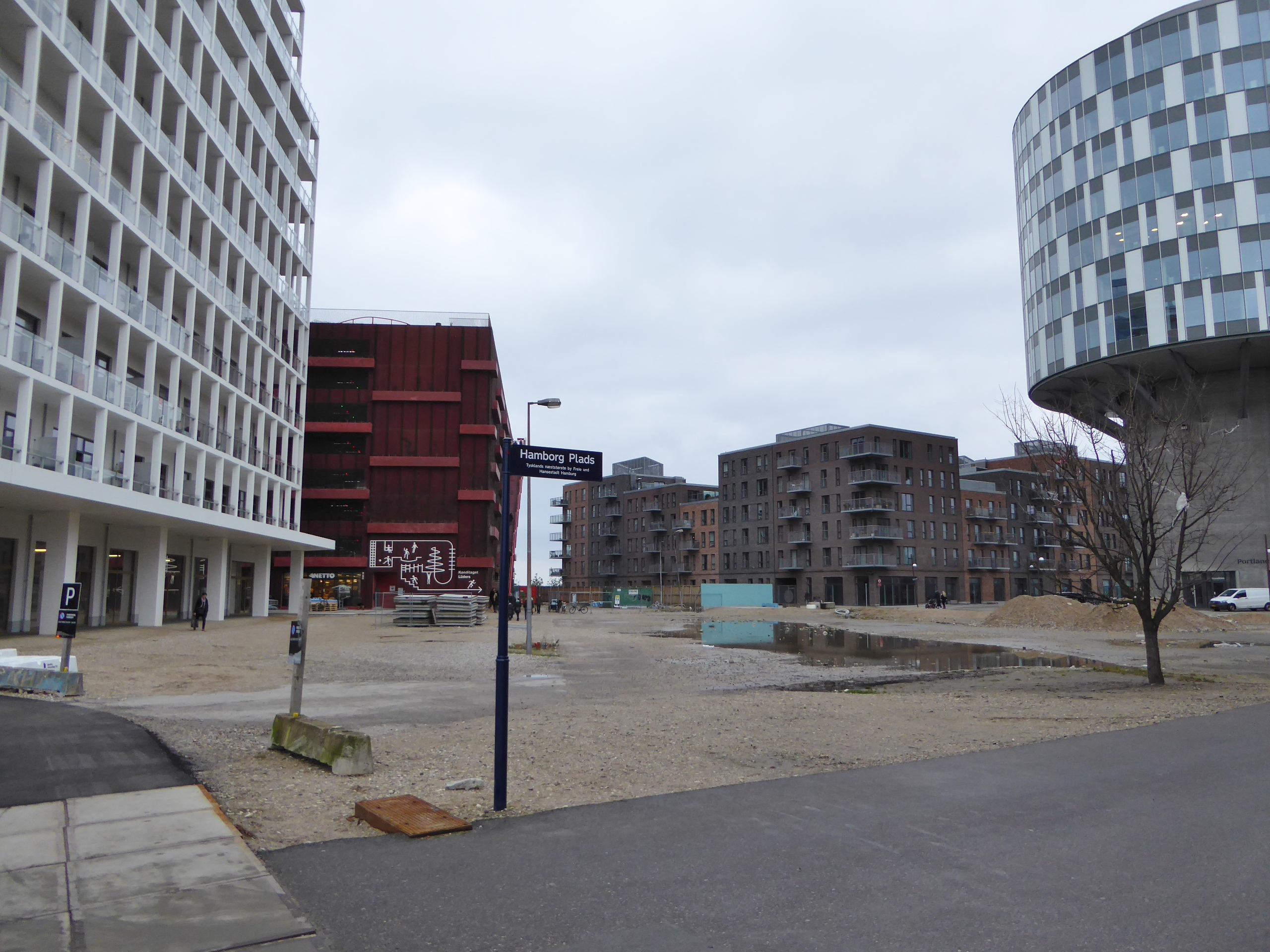 The square Hamborg Plads in Nordhavn in Copenhagen. Parts of the square is still under construction.